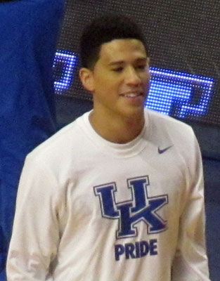 Kentucky Wildcats men's basketball player Devin Booker at the team's 2014 Blue-White scrimmage at Rupp Arena in Lexington, Kentucky